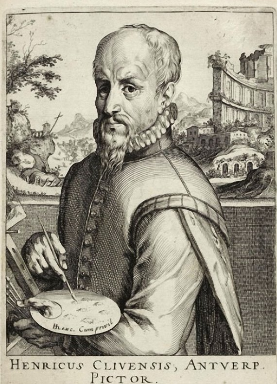 Engraved portrait of Hendrick van Cleve III, published by Published by Hendrick Hondius I.